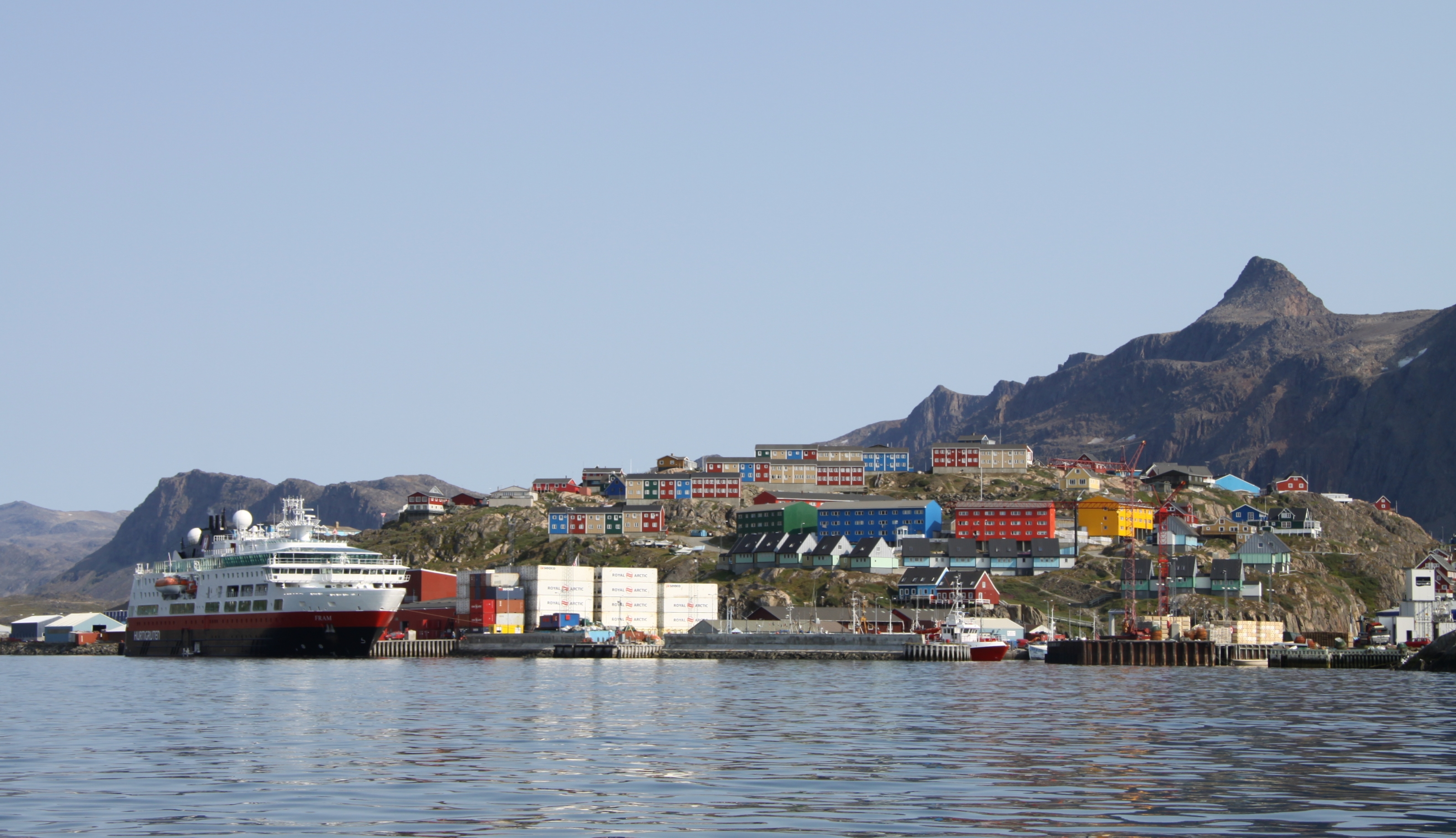 Sisimiut Port, Greenland.